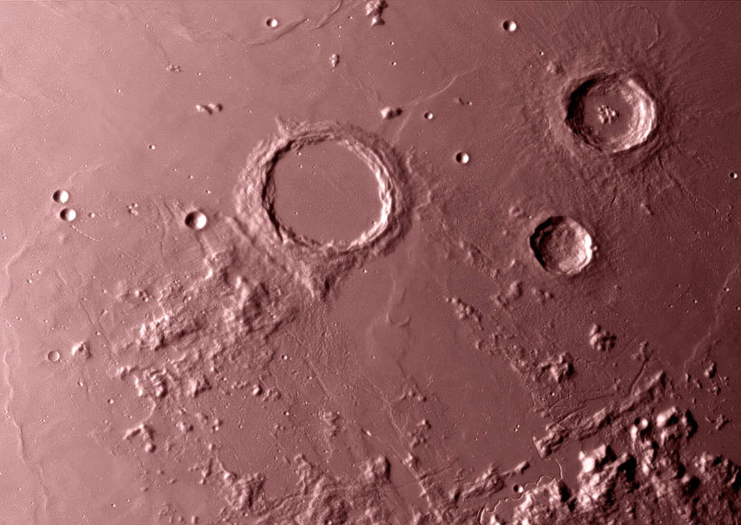 The Archimedes crater of the Moon and other features. Archimedes is the largest crater near the center of the picture. It lies within the Mare Imbrium. The other large craters are Aristillus (to the right of Archimedes and higher, with pronounced central peak) and Autolycus (to the right and lower). At the lower right edge of the picture parts of the Montes Apenninus are visible. Infrared image in L band centred on 3.75 micrometres. Taken with the SIRCA camera by M. Gålfalk, G. Olofsson, and H.-G. Florén. Nordic Optical Telescope, Stockholm Observatory. More images can be found here